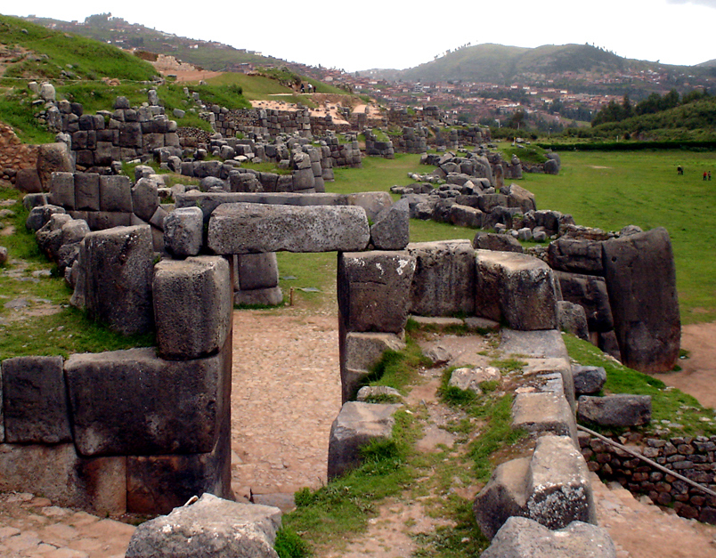 Sacsayhuaman, Cusco, Peru